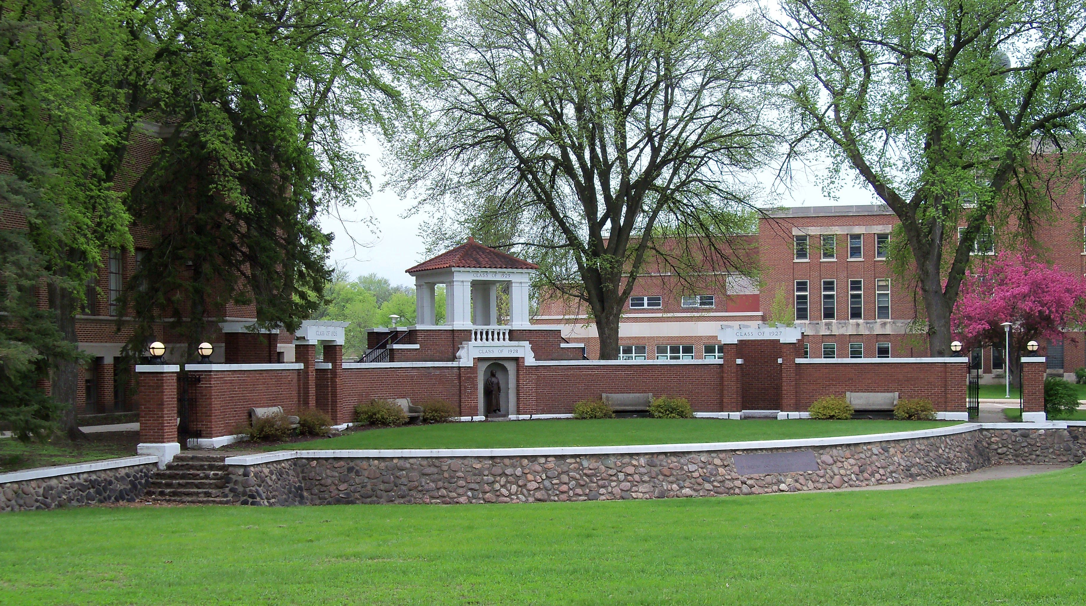 Coolidge Sylvan Theatre on the campus of South Dakota State University in Brookings, South Dakota, USA.